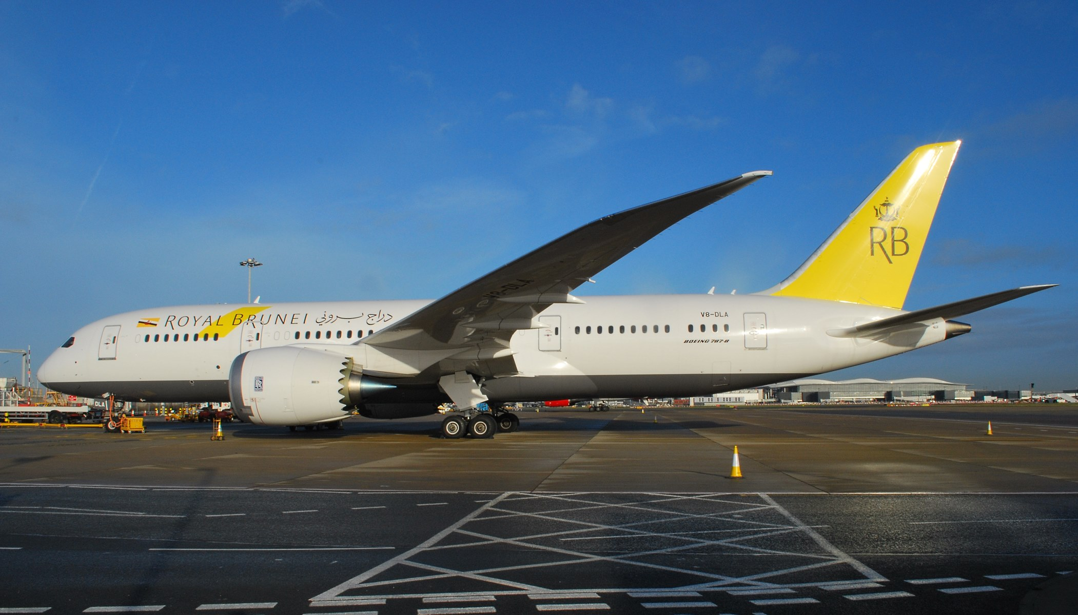 Remote parked between flights